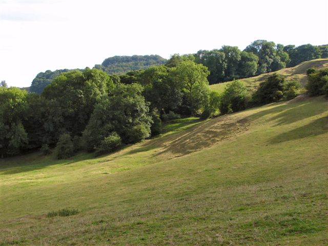 Sprink Wood & Rough Pitty Side Woods to the South west of Wirksworth